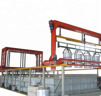 continuous electrogalvanizing